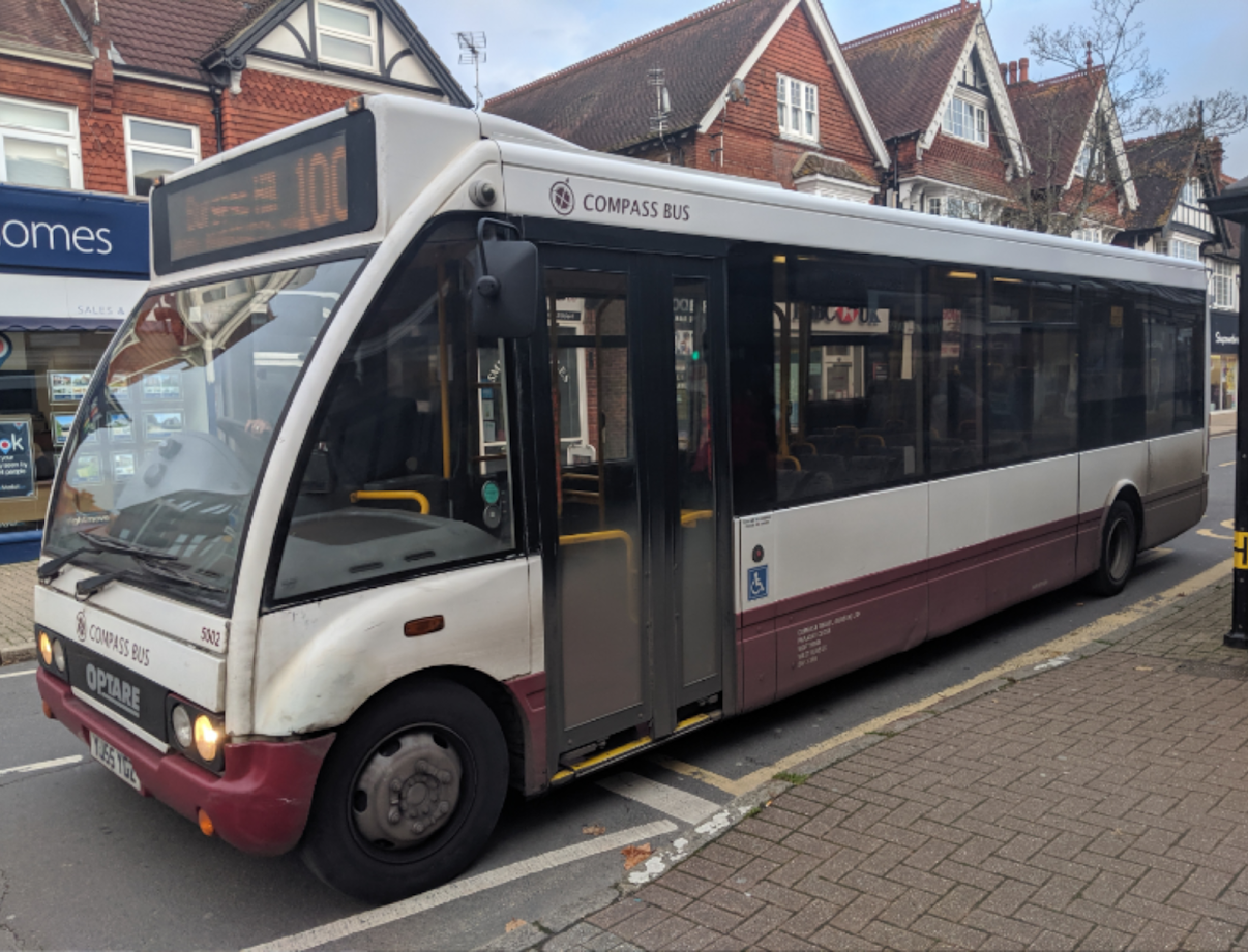 Seen on the 100 in Burgess Hill